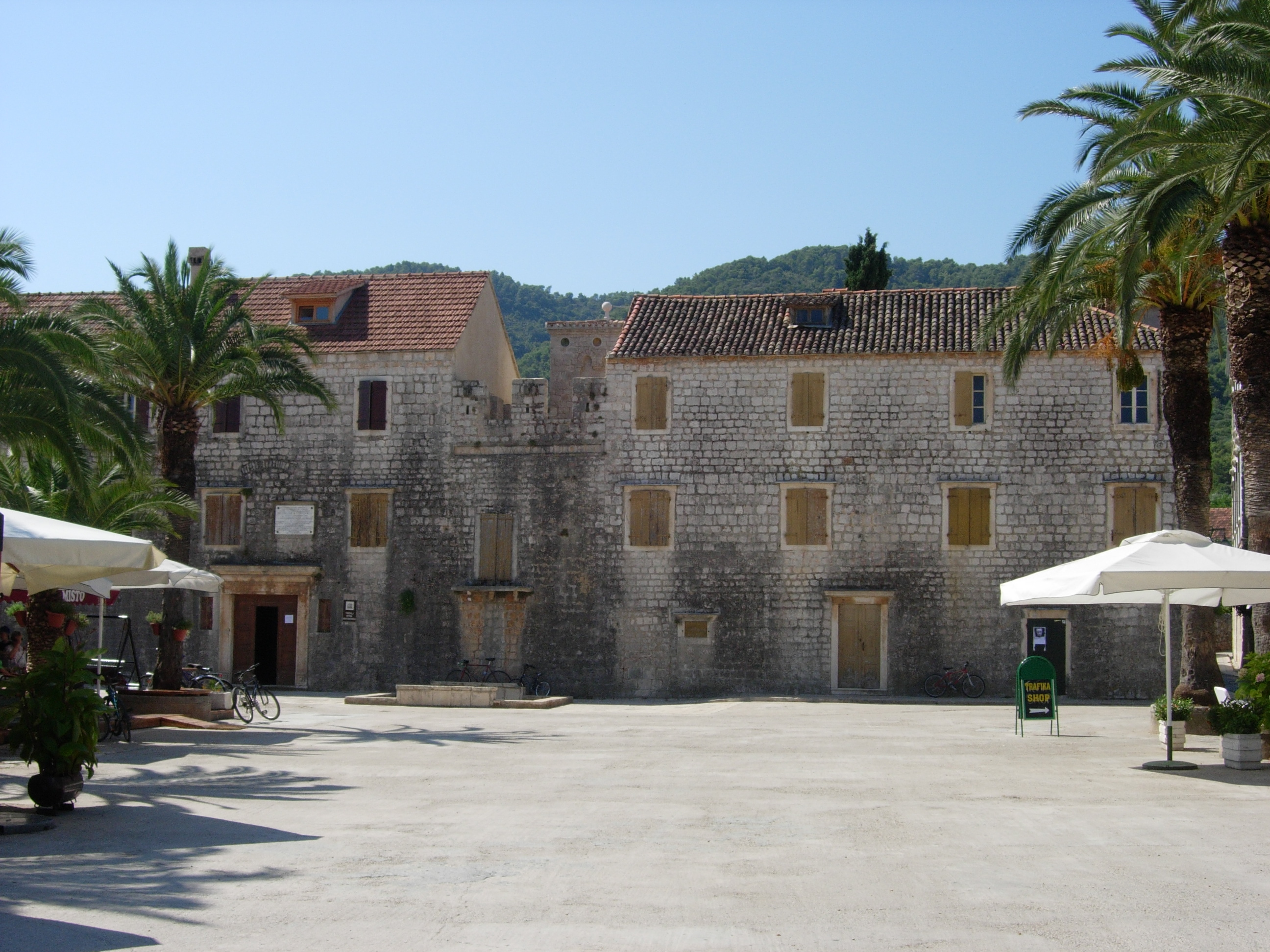 Tvrdalj of Petar Hektorović, Stari Grad, front.